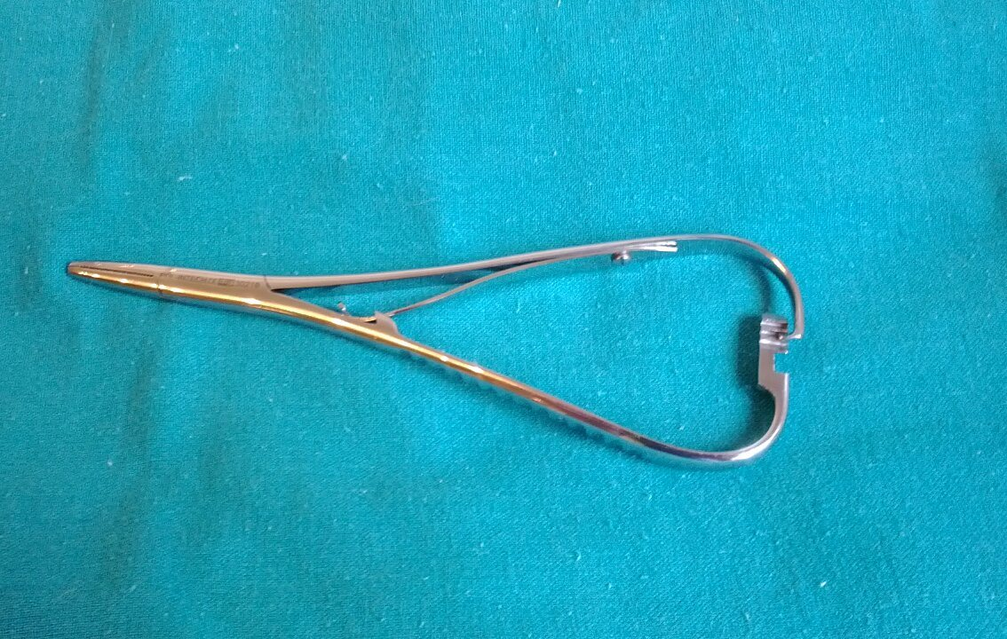 Mathieu needle holder.